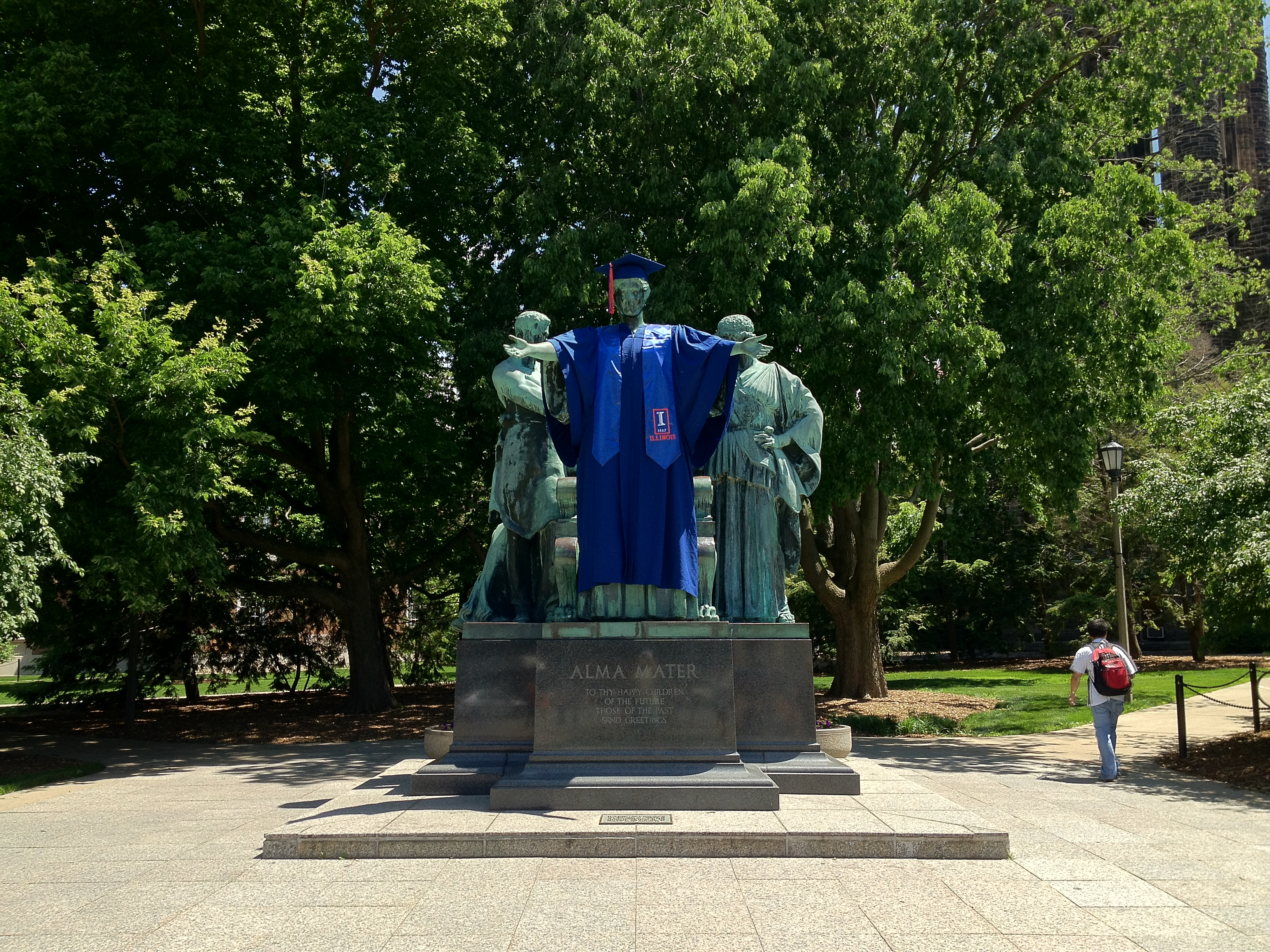 The Alma Mater statue at the University of Illinois at Urbana-Champaign during the 2012 commencement week. The university's website, and their corresponding Wikipedia page